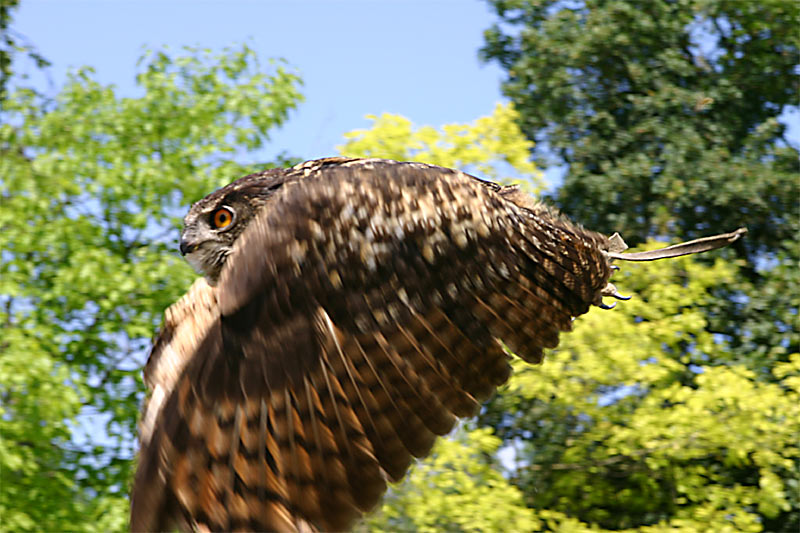 Eagle-owl in flight